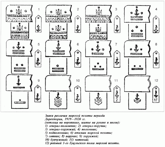 Military rank insignia of Ukrainian Navy (Hutsul Marines).